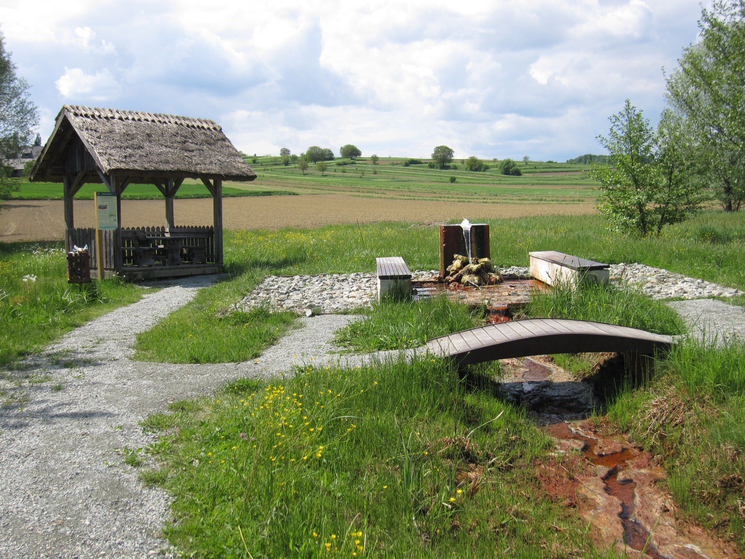 Mineral water spring Nuskova, Rogašovci, Slovenia